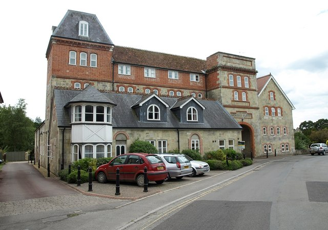 The Wiltshire Brewery, Tisbury. The former brewery is also shown in 314449 and 314471. It stands on Church Street and dates from 1885. "Chilmark stone, part ashlar faced, and red brick dressings. Clay Bridgwater tile and slate roofs with crested ridge tiles." Archibald Beckett also built the Benett Arms - see 314411 and transformed the landscape of this part of Tisbury .